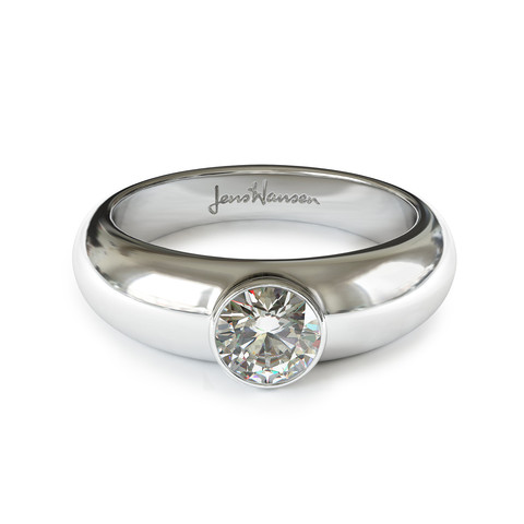 Diamond Bezel Set in 18ct White Gold from Jens Hansen Gold and Silversmith